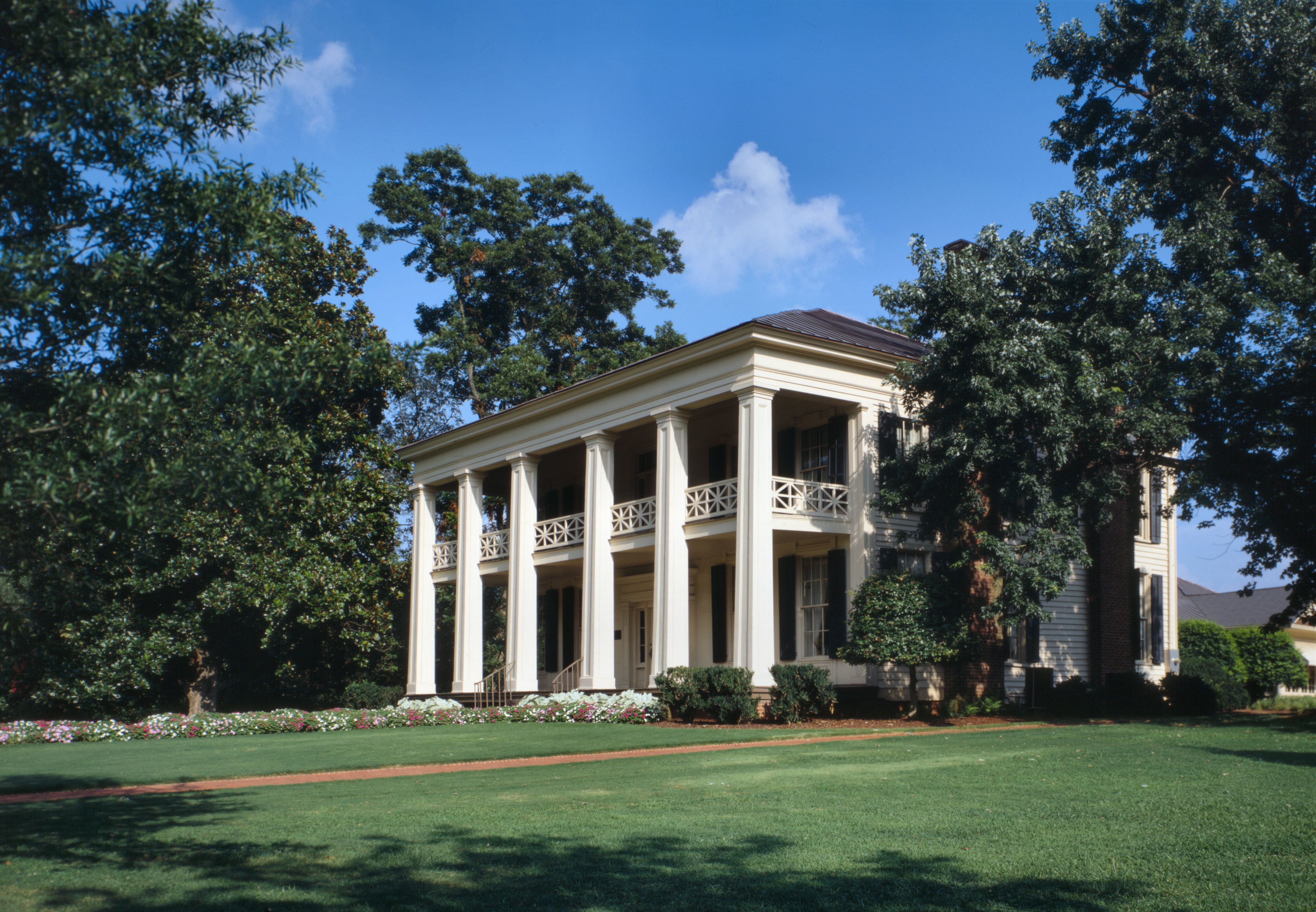 Arlington Place, 331 Cotton Avenue, Southwest, Birmingham, Jefferson County, AL. PERSPECTIVE VIEW LOOKING FROM THE NORTHWEST TOWARD THE NORTH (FRONT) ELEVATION (DUPLICATE OF HABS No. AL-424-26) HABS ALA,37-BIRM,1-45.